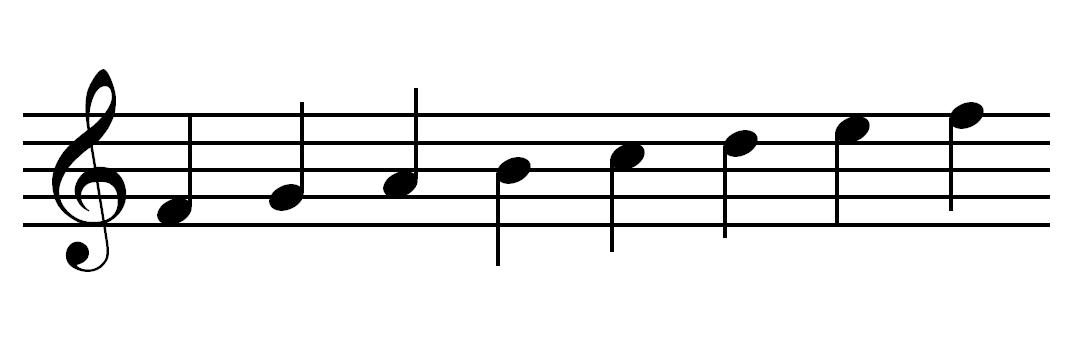 Treble Clef Staff Notation